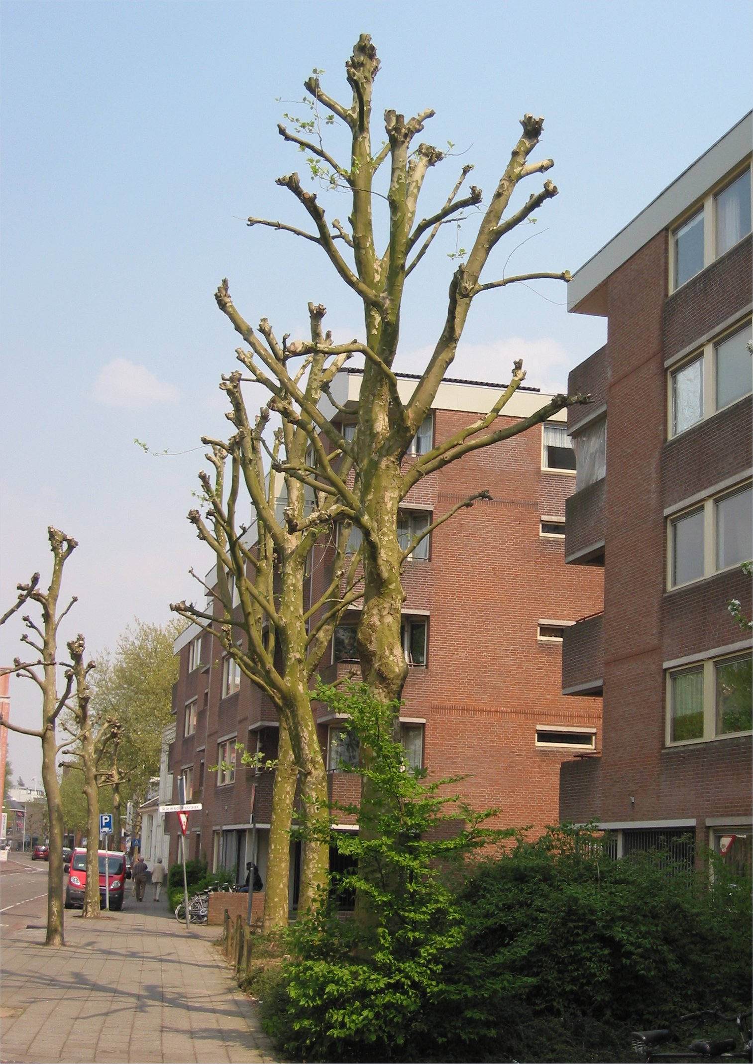 (nl: Plataan sterk teruggesnoeid) Platanus × hispanica (syn. P. × acerifolia) pruned because of Apiognomonia errabunda disease